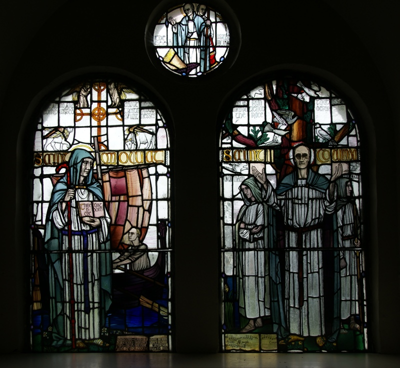 St Moluag's Cathedral, Lismore, Scotland. Stained glass windows. Art Nouveau, by Mary I. Wood, 1928, depicting St Moluag and St Columba.